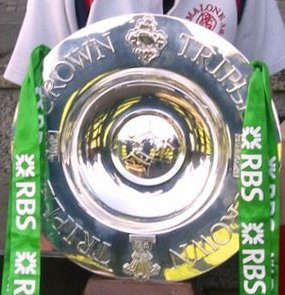 The Triple Crown Trophy